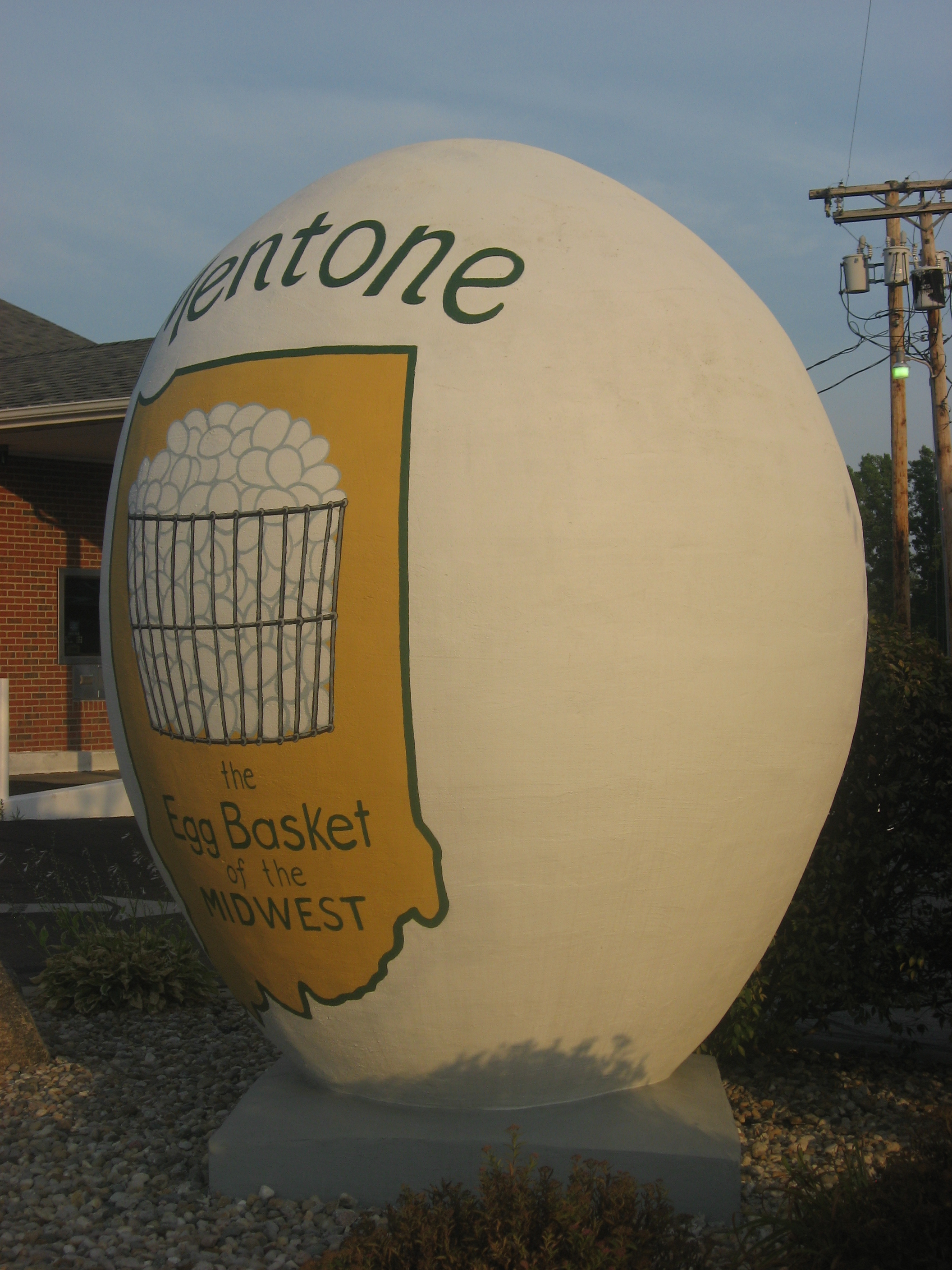 A large concrete egg in Mentone, Indiana, United States. Placed in 1946 to celebrate the community's egg production, it is located on the southeastern corner of Main (State Road 25) and Morgan Streets, in front of the local Dollar General.